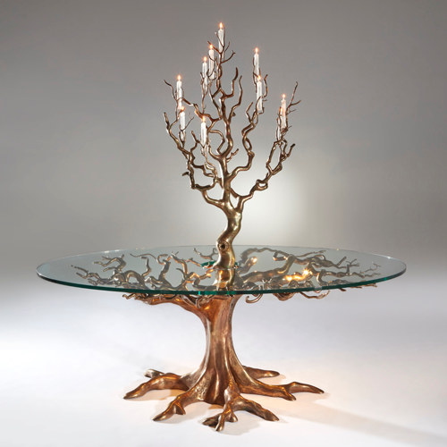 Sidney's oak table by Mark Reed.